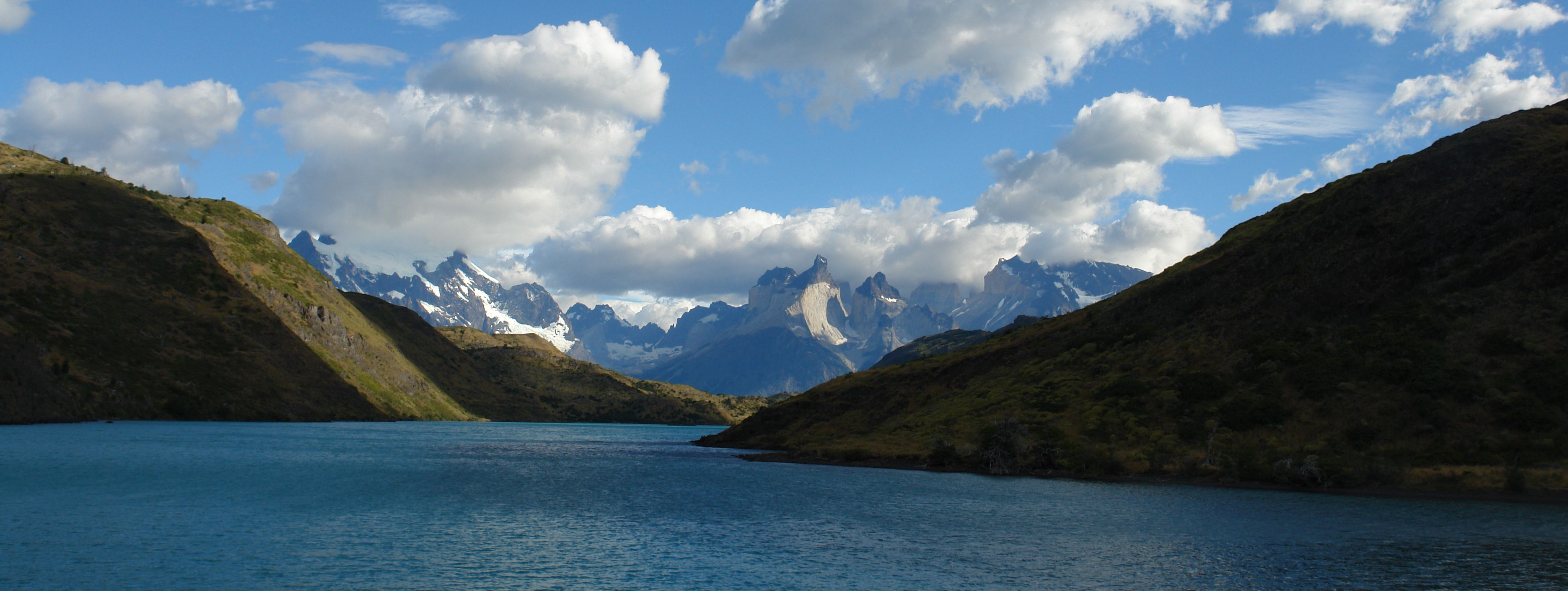 Locals say that the lake and the nearby mountain Sierra del Toro is named thus because the lake 'is angry a lot'.